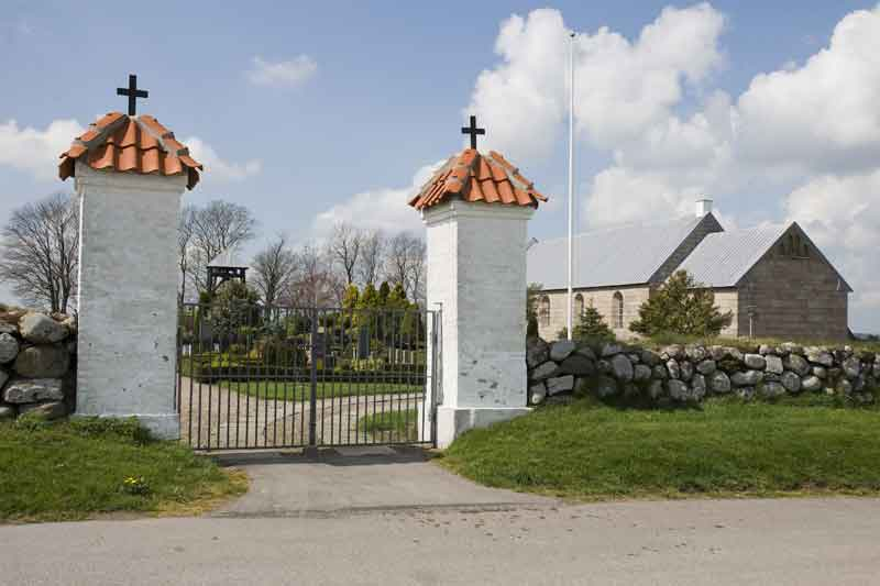 Church in Hørby in the northern part of Denmark